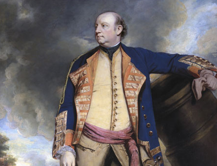 Caption from the museum's website Hot-headed and known for his heavy drinking, the Marquess of Granby (1721-1770) also acquired a reputation for courage and leadership during the Seven Years War (1756-1763). He was given command of the British contingent after the Battle of Minden (1759), returning home to a hero's welcome in 1763. It was a testament to Granby's abilities that the first commission for a full-length portrait of him which Reynolds received was from Duc de Broglie, the French opponent whom Granby had defeated at the Battle of Vellingshausen (or Kirchdenkern), 1761. As the eldest son of the 3rd Duke of Rutland, Granby had considerable advantages and started his career as the MP for Grantham. He was then commissioned as Colonel of the 'Leicester Blues', one of the controversial 'noble' short-service regiments raised to fight Bonnie Prince Charlie, the Young Pretender, in 1745. He became Colonel of the Royal Horse Guards in 1758, Master General of the Ordnance in 1763 and Commander-in-Chief of the Army in 1766. Granby is shown here in his uniform as Master-General of the Ordnance, leaning on a 13-inch land service mortar, with troopers of the Royal Horse Guards riding towards a battle which rages in the distance.